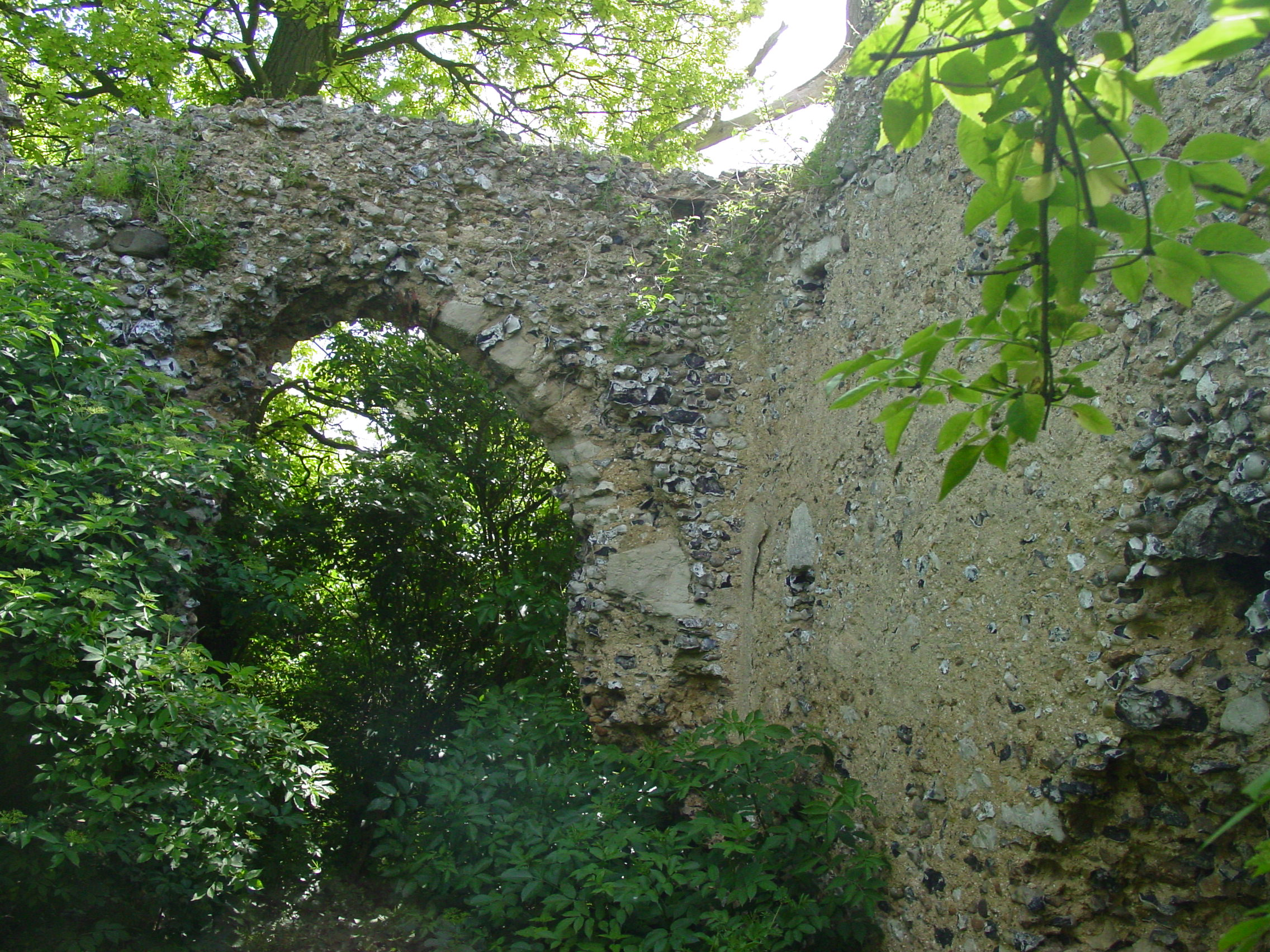 A photograph of the overgrown ruins of Minsden Chapel, taken in May, 2004 by David Edgar.